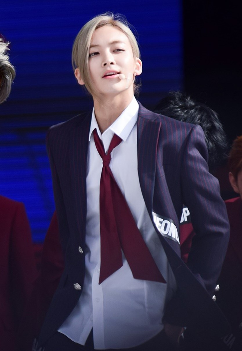 Yoon Jeong-han at DMC Music Festival on September 12, 2015.